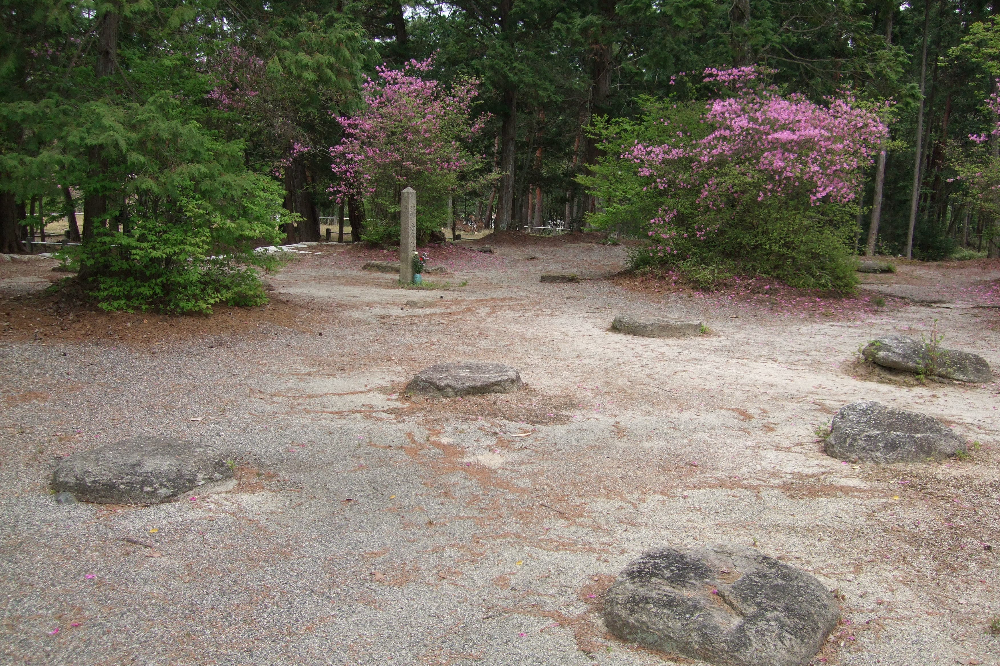 Shigarakinomiya in Koka, Shiga Prefecture, Japan